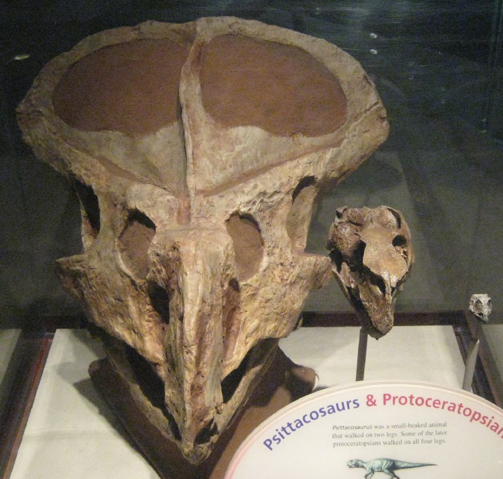 Protoceratops, Psittacosaurus, and Bagaceratops rozhdestvenskyi; 85 - 75 million years old, Late cretaceous; Gobi Desert, Mongolia; On display at the National Museum of Natural History, New York, USA